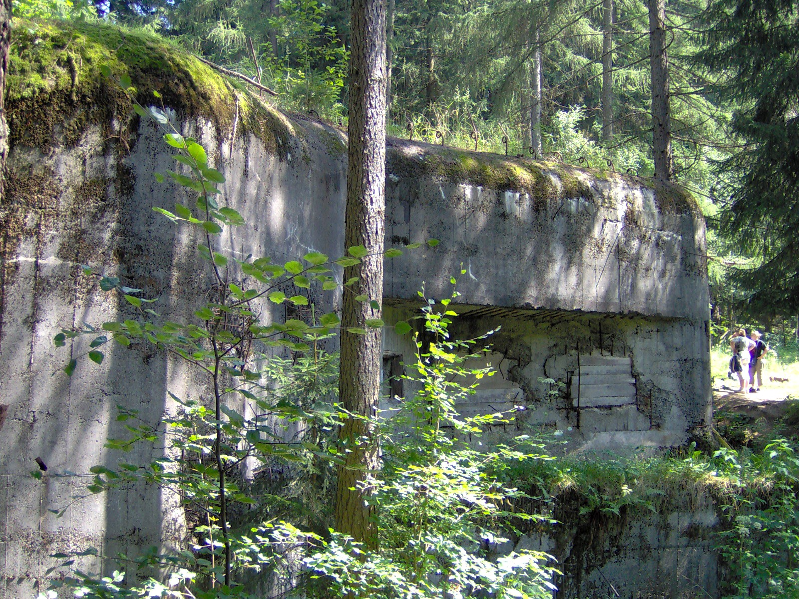 StM-S 52 Obora infantry casemate, Šumperk District, Czech Republic